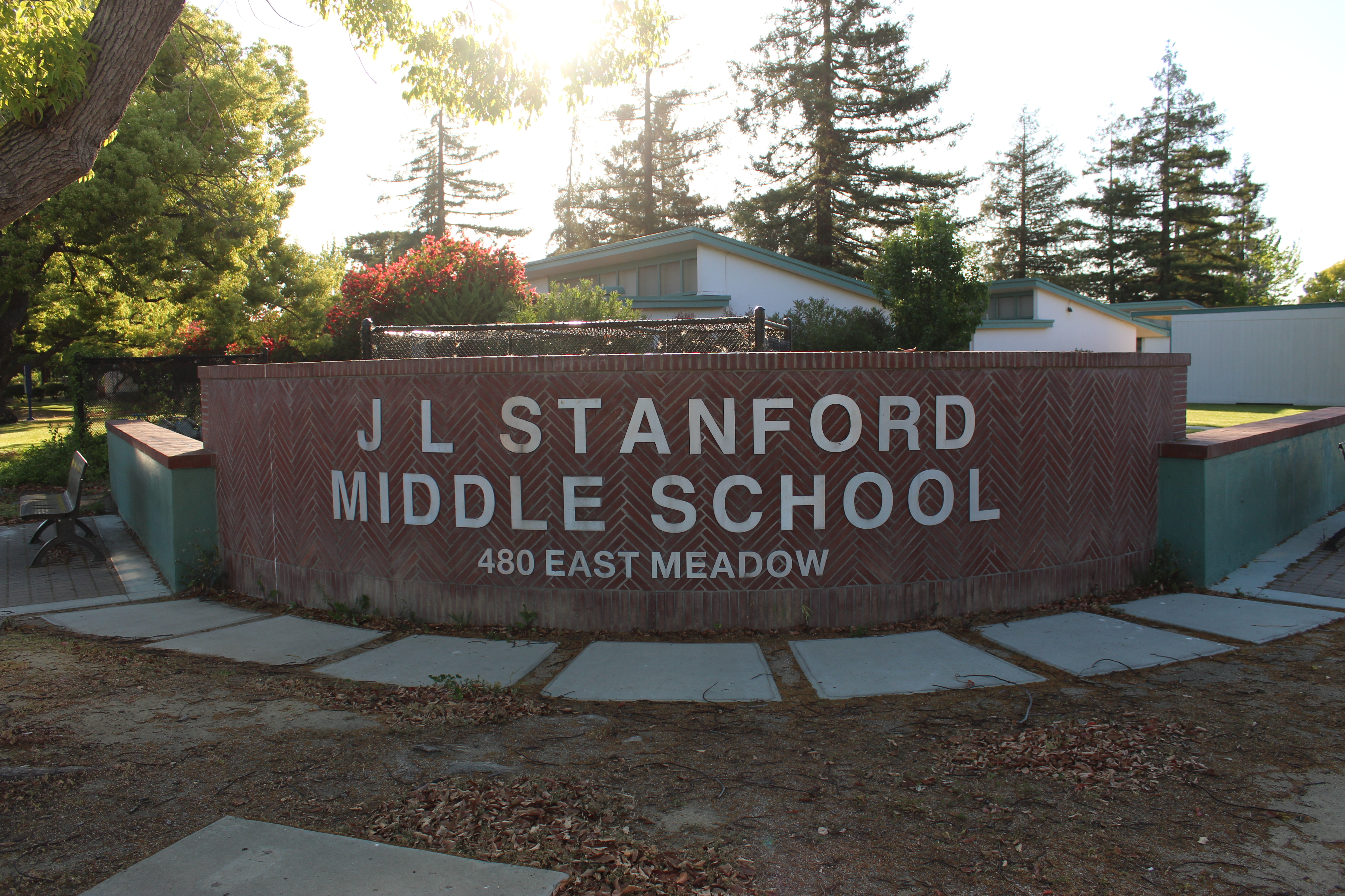 An image of the front sign for JLS Middle School in Palo Alto, Cal